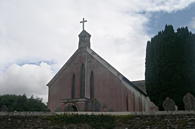 Holy Trinity parish church, Bere Alston, Devon, seen from the west